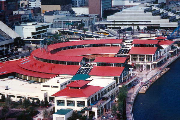 Aerial view of Jacksonville Landing - Jacksonville, Florida